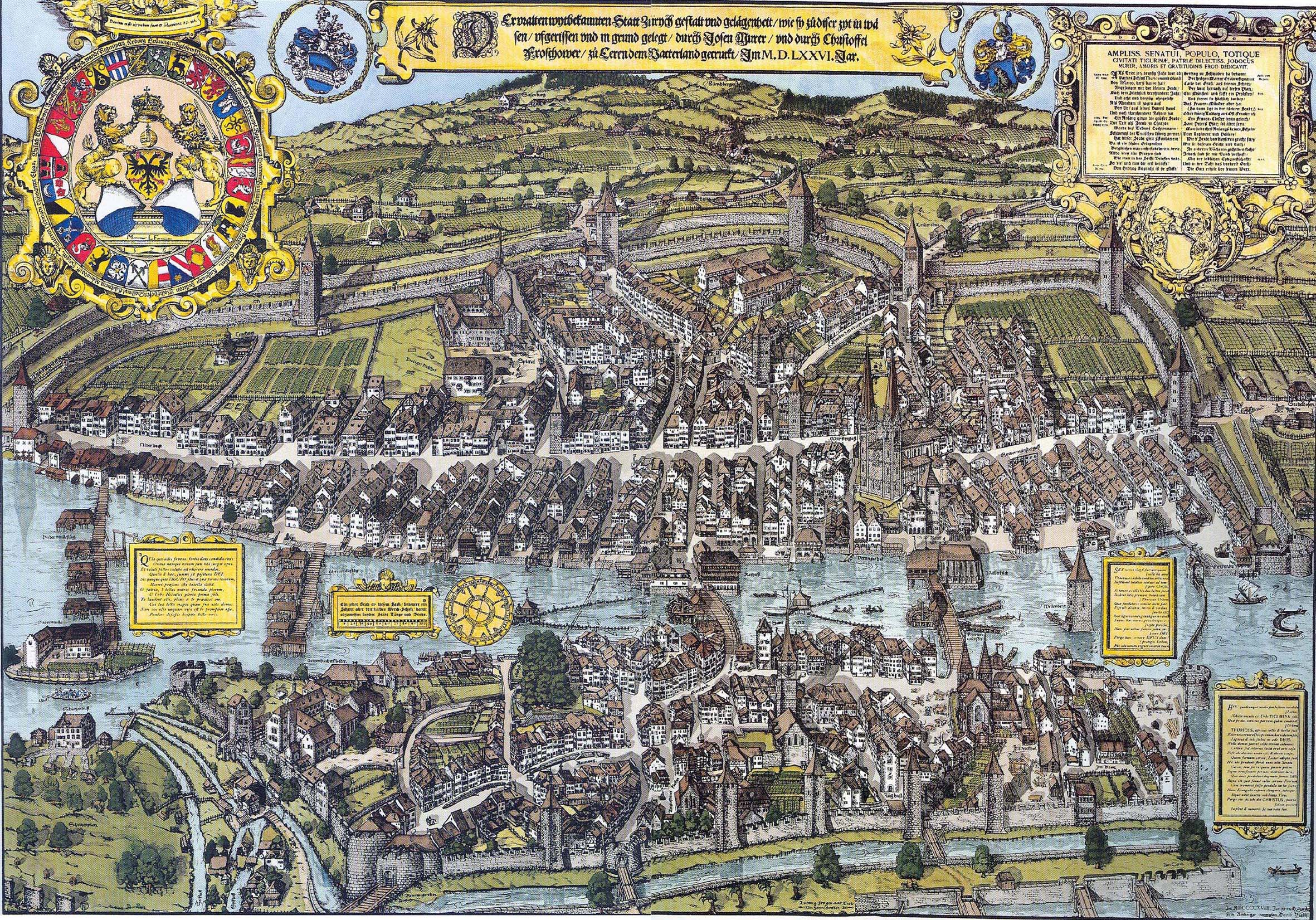 View of the city of Zürich on a xylography by Josua Murer, 1576